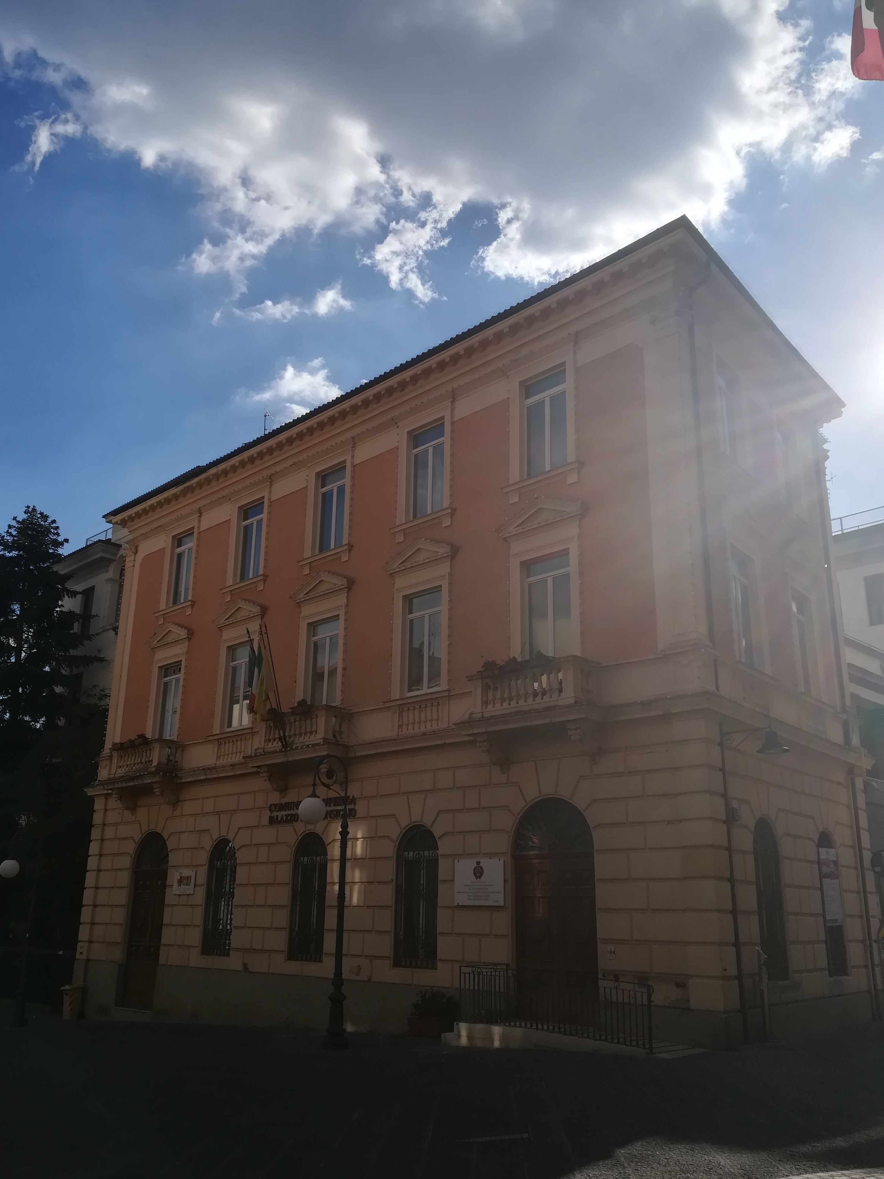 Palazzo del Fascio of Potenza, seat of the city council of Potenza, located in piazza Matteotti. This is a photo of a monument which is part of cultural heritage of Italy.